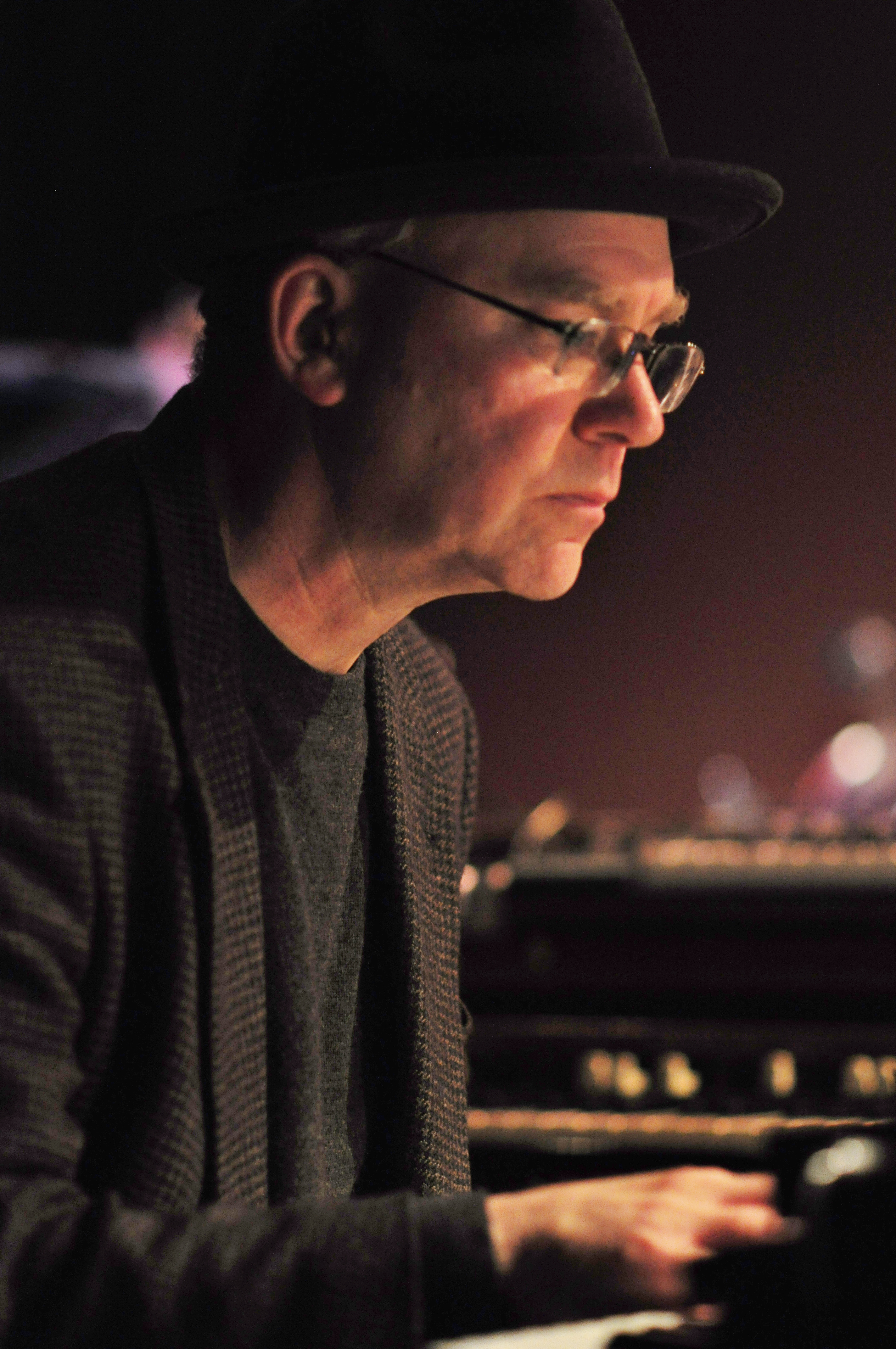 Jazz musician Wayne Horvitz appearing at the OK Hotel Family Reunion, Royal Room, Columbia City, Seattle, Washington Sunday night, February 28, 2016.